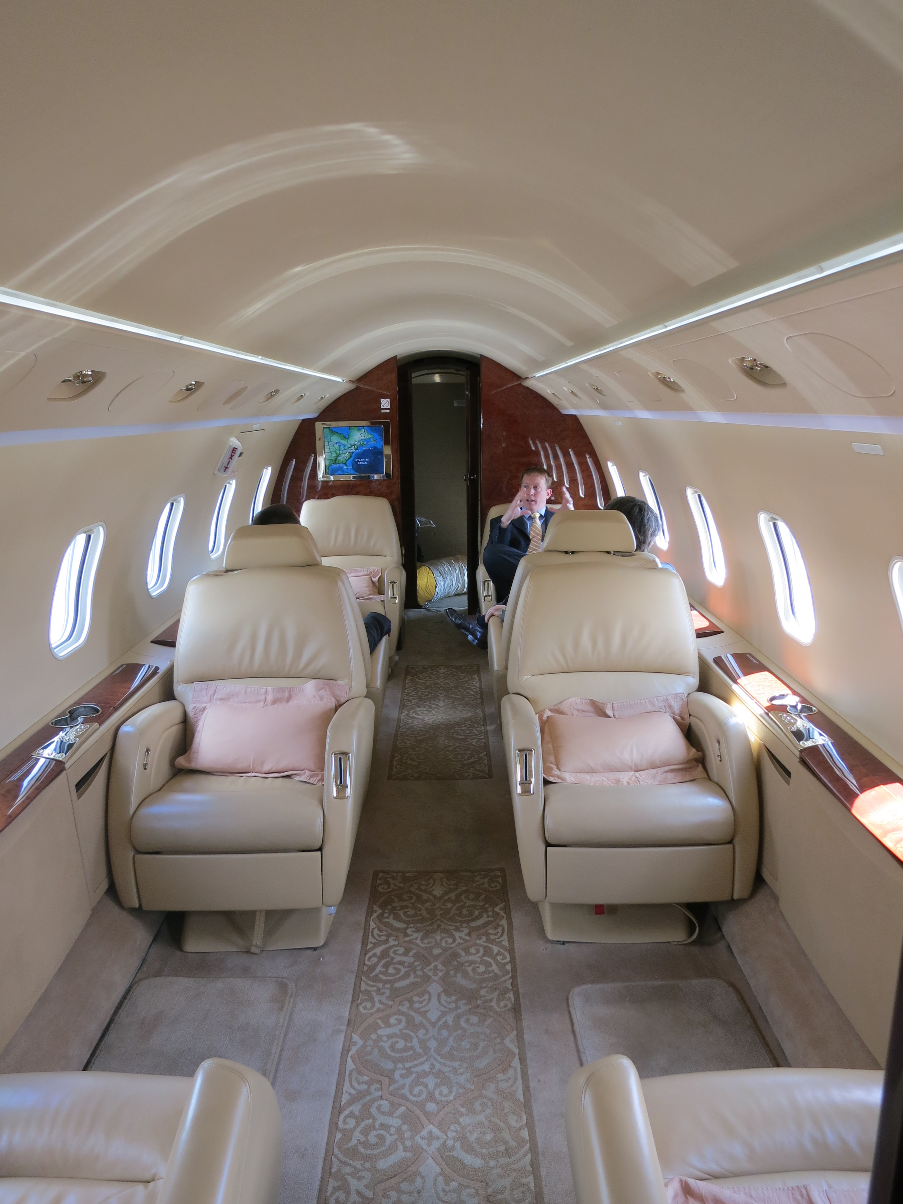 Bombardier Challenger 300 interior cabin.